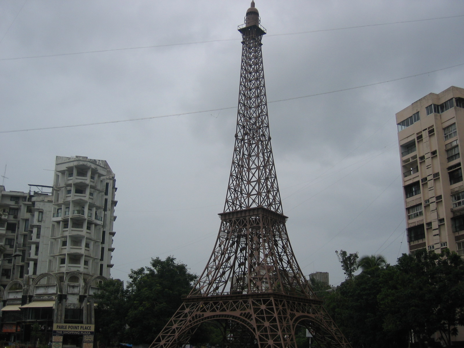 This is a scaled down copy of Eiffel Tower in Surat in very popular Parle Point area.